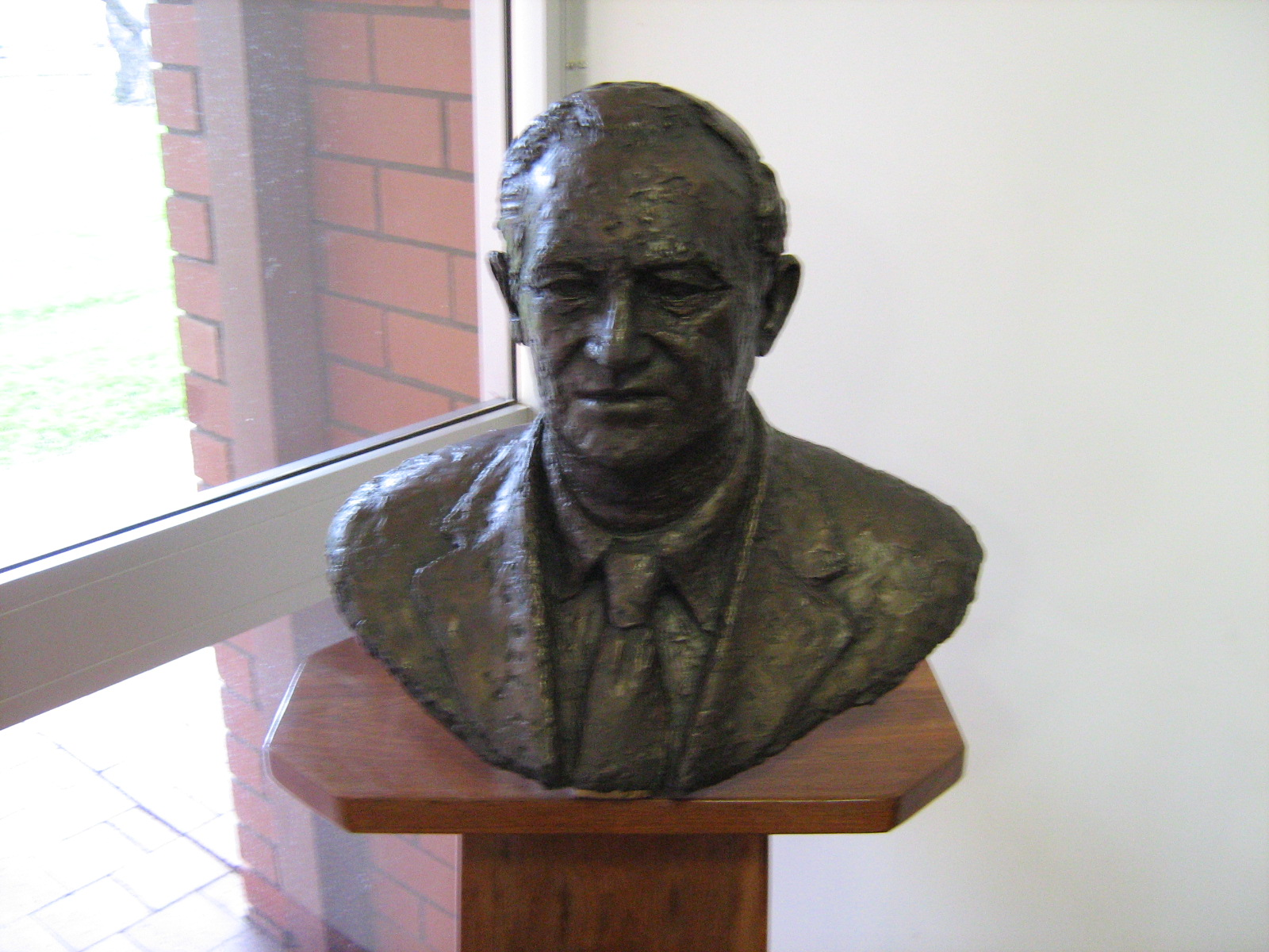 David Brand statue at Shire of Irwin Chambers, Dongara, Western Australia. Brand, who was Premier of Western Australia from 1959 to 1971, was from the area and represented the local state parliament seat from 1945 until 1975.